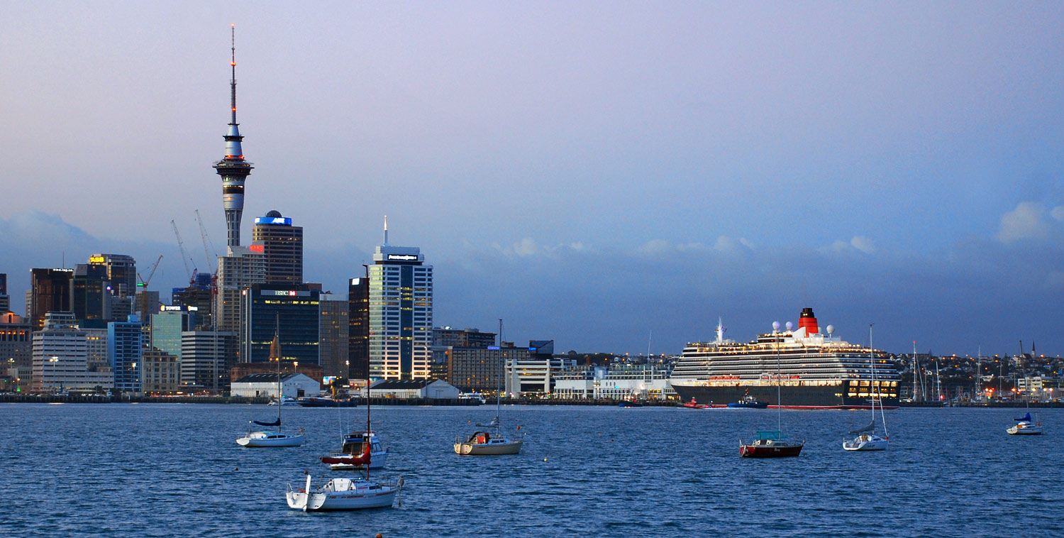 Cunard Ocean liner, Queen Victoria entering Auckland harbour 15th February 2008